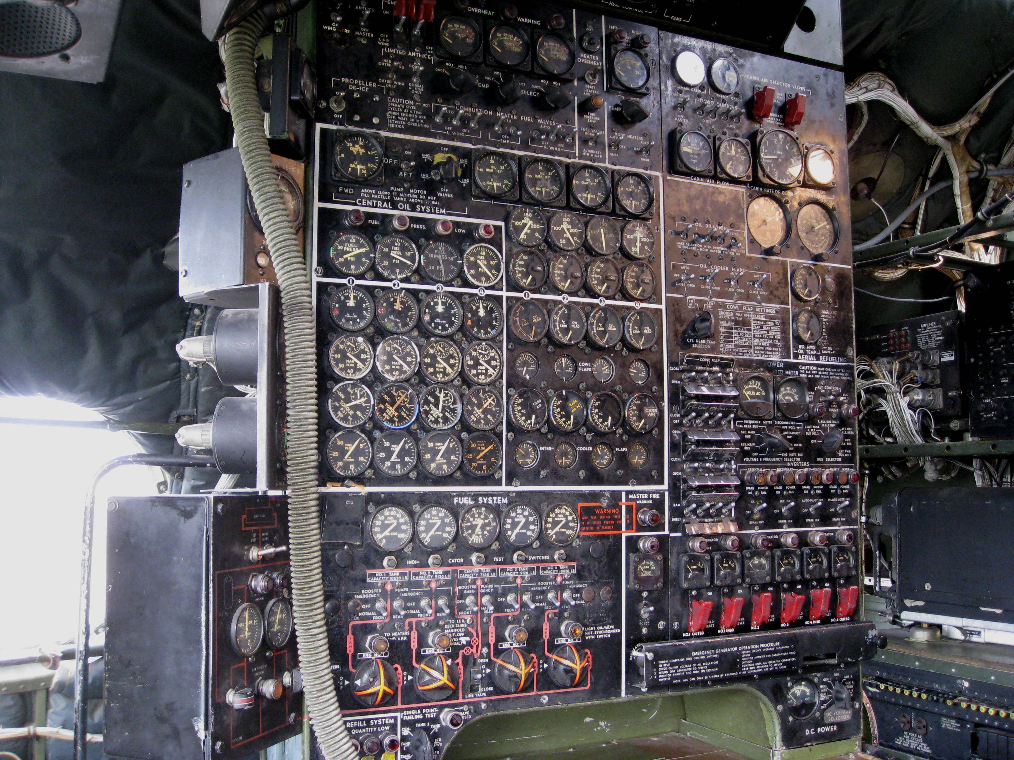 This started as a KC-97G dual-role aerial refueling tankers/cargo transportation aircraft. KC-97G models carried underwing fuel tanks. 592 built. Later it was converted to KC-97L 81 KC-97Gs modified with two J47 turbojet engines on underwing pylons. Source accessed 18 May 2010 This aircraft is located at the Rogue Valley International-Medford Airport in Central Point, Oregon seawt10 130